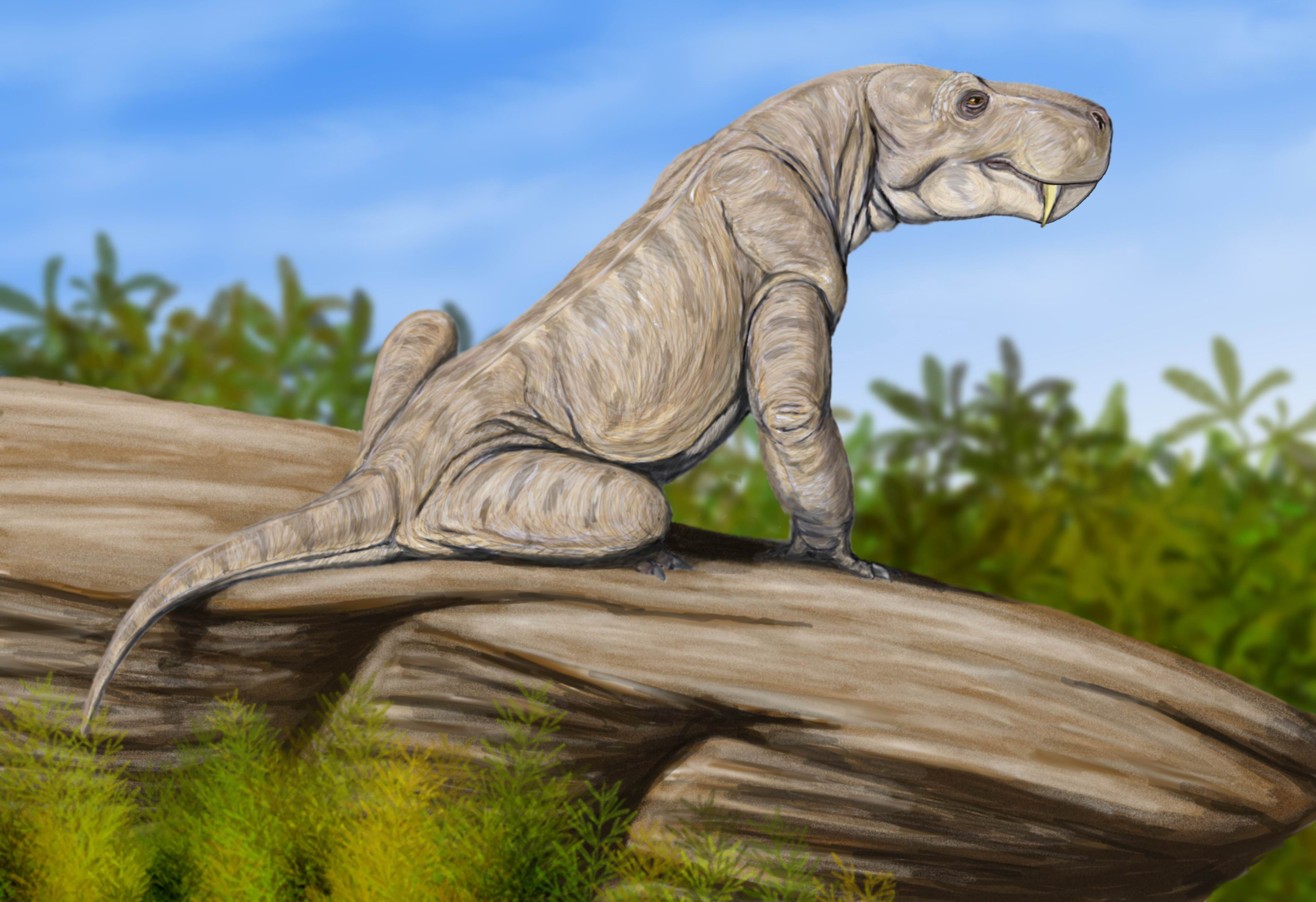 "Dinogorgon" rubigei